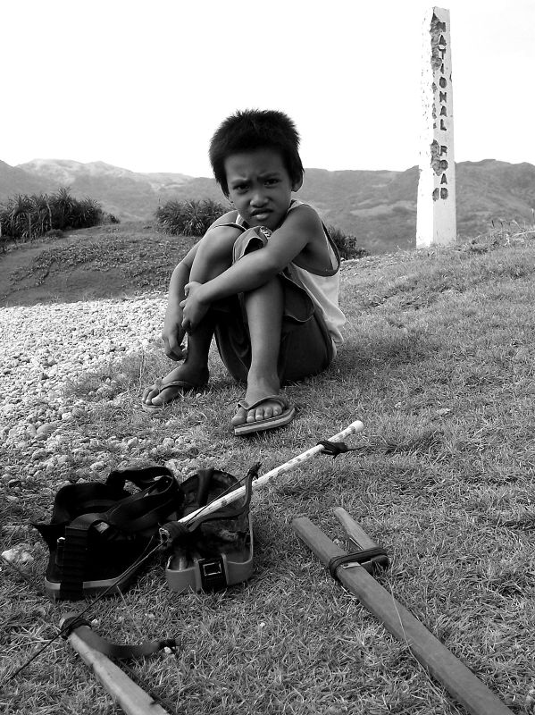 An Ivatan child